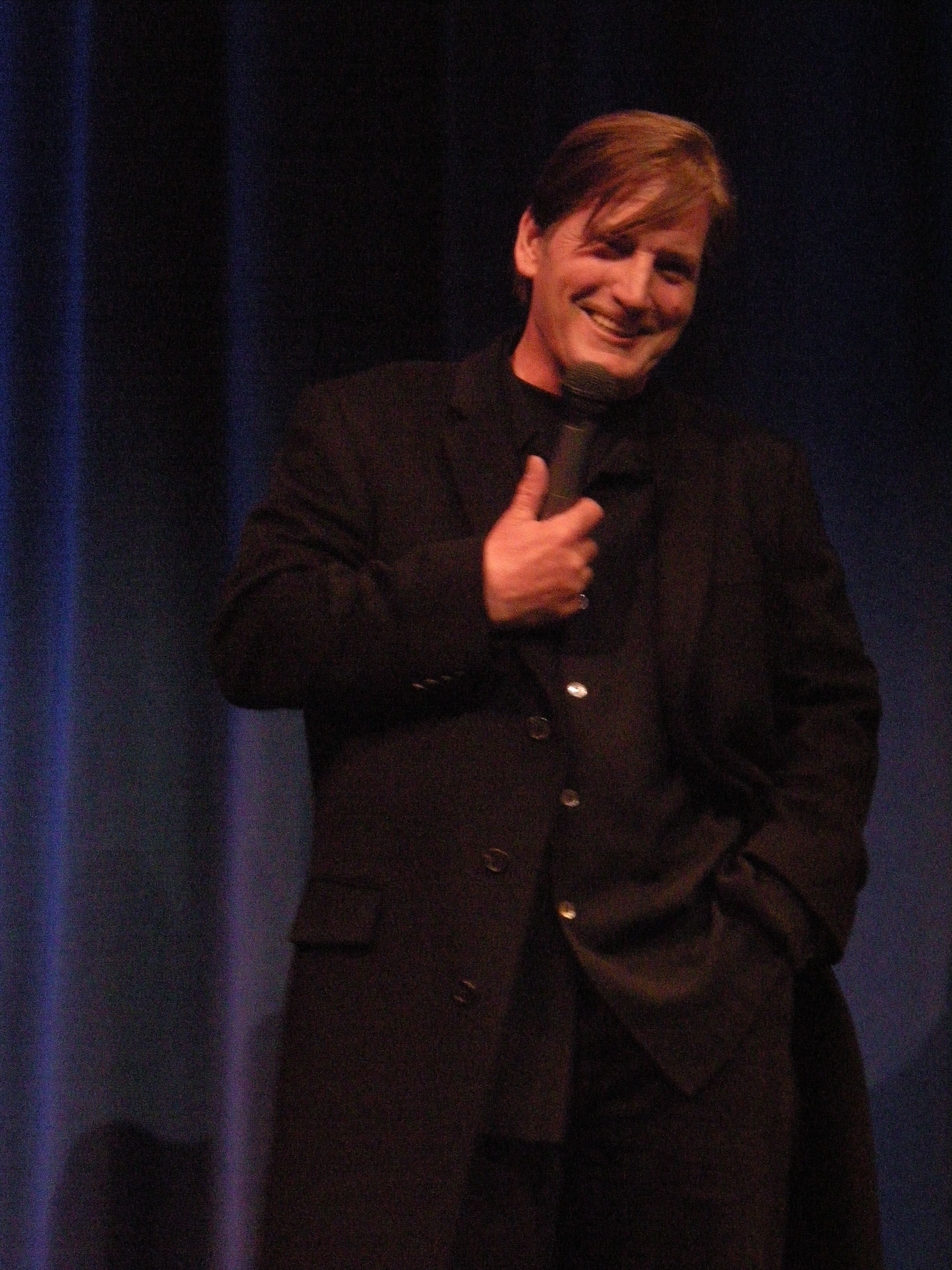 Joe Dallesandro after a showing of the documentary Little Joe (which is about him), 2009 Seattle International Film Festival.